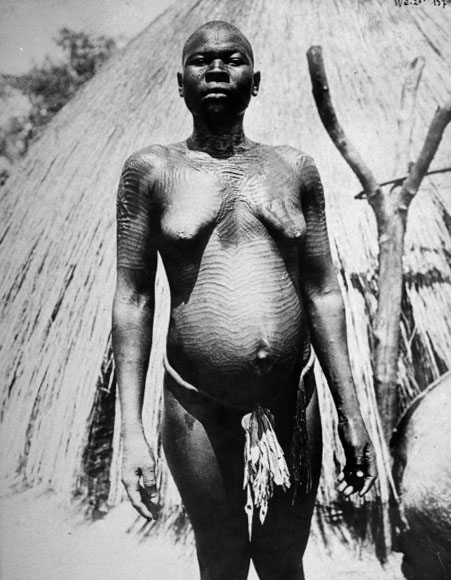 Laka woman (Pictures taken by the Mission Moll, 1905-1907, Congo, Oubangui-Chari, Tchad, Cameroun